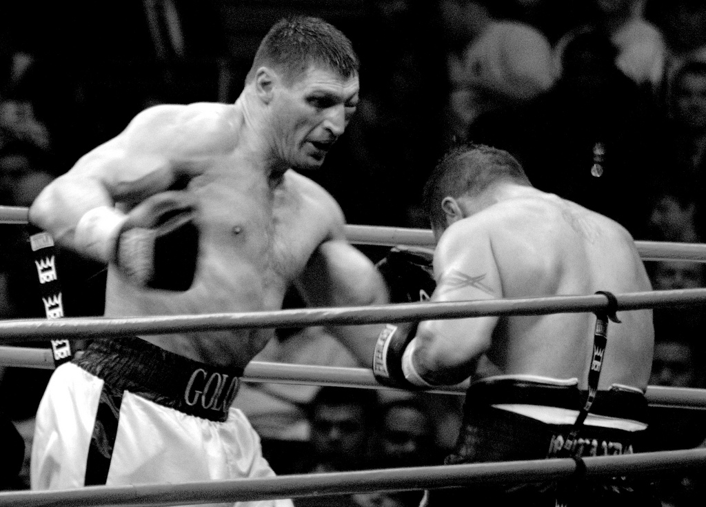 Andrew Golota vs. Mike Mollo at the Madison Square Garden (New York).